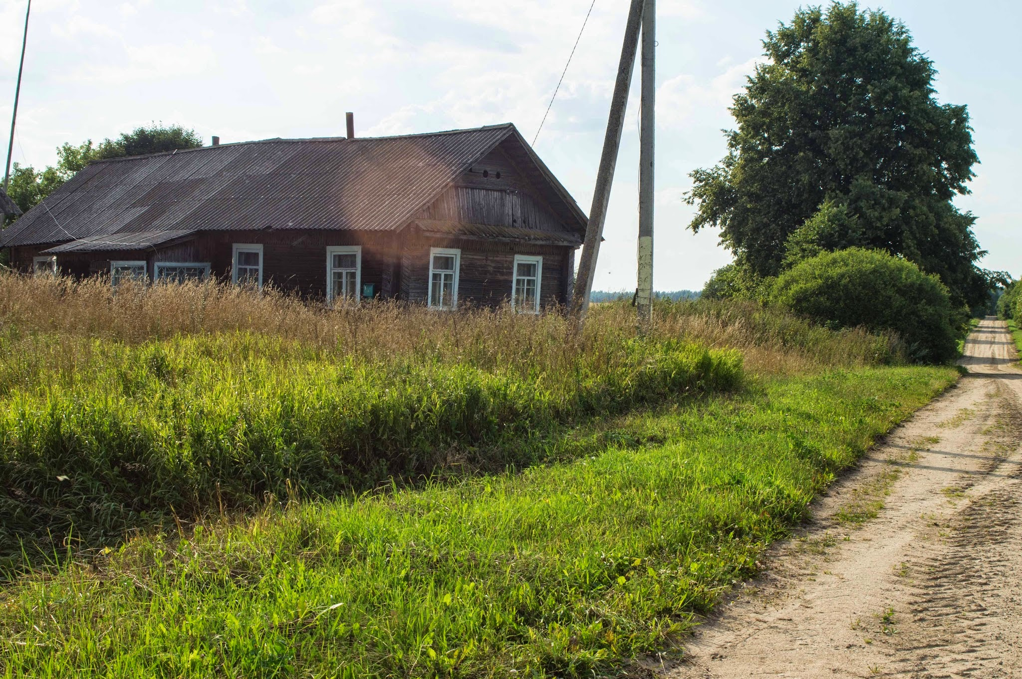 Aziarodavichy, and the whole village ...